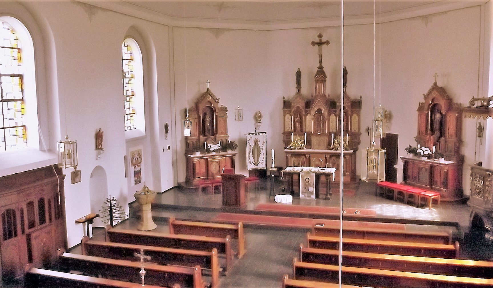 Interior of the roman catholic church in Nennig, Saarland, Germany